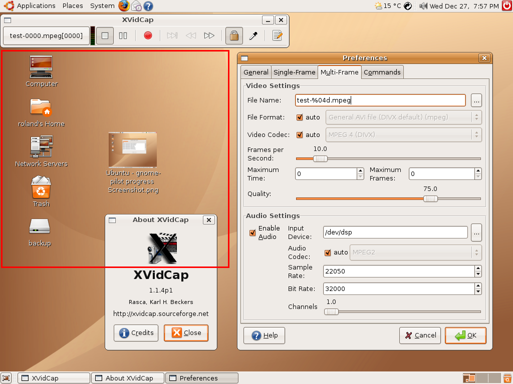 Screengrab of Xvidcap software used to capture part of the current Ubuntu computer system desktop. Image taken by the author.